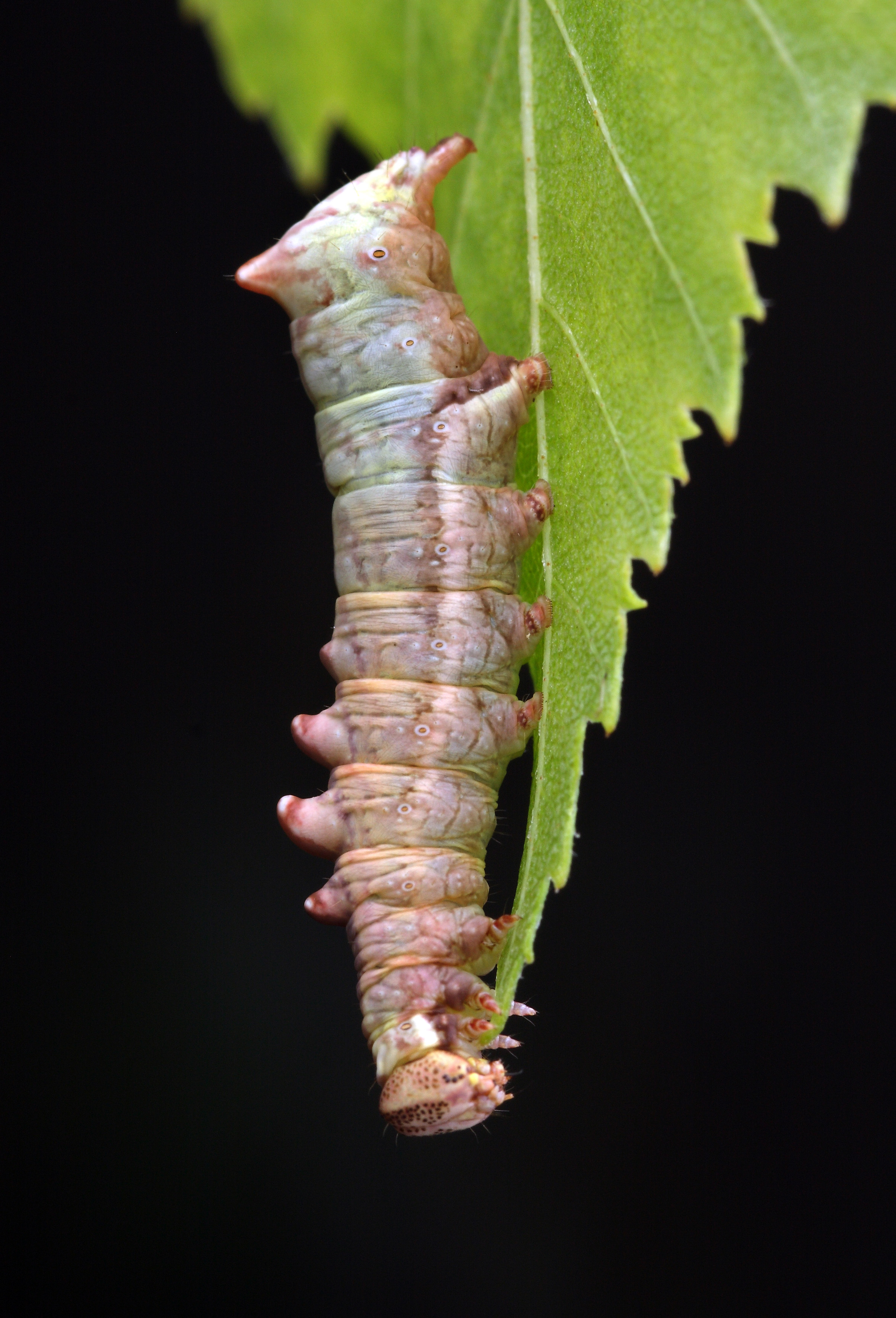 Found on a birch in the garden this morning.